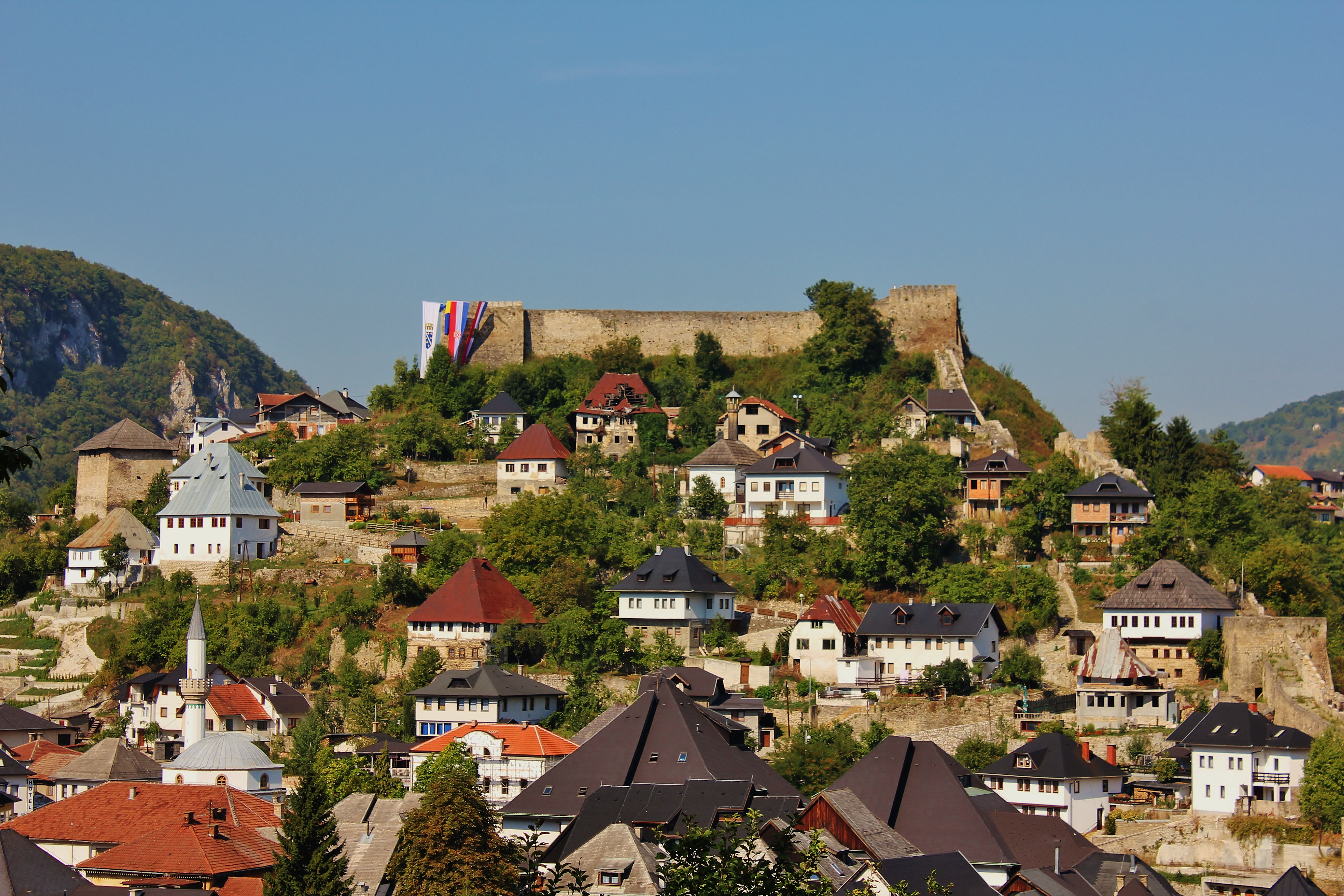 Jajce (BiH)